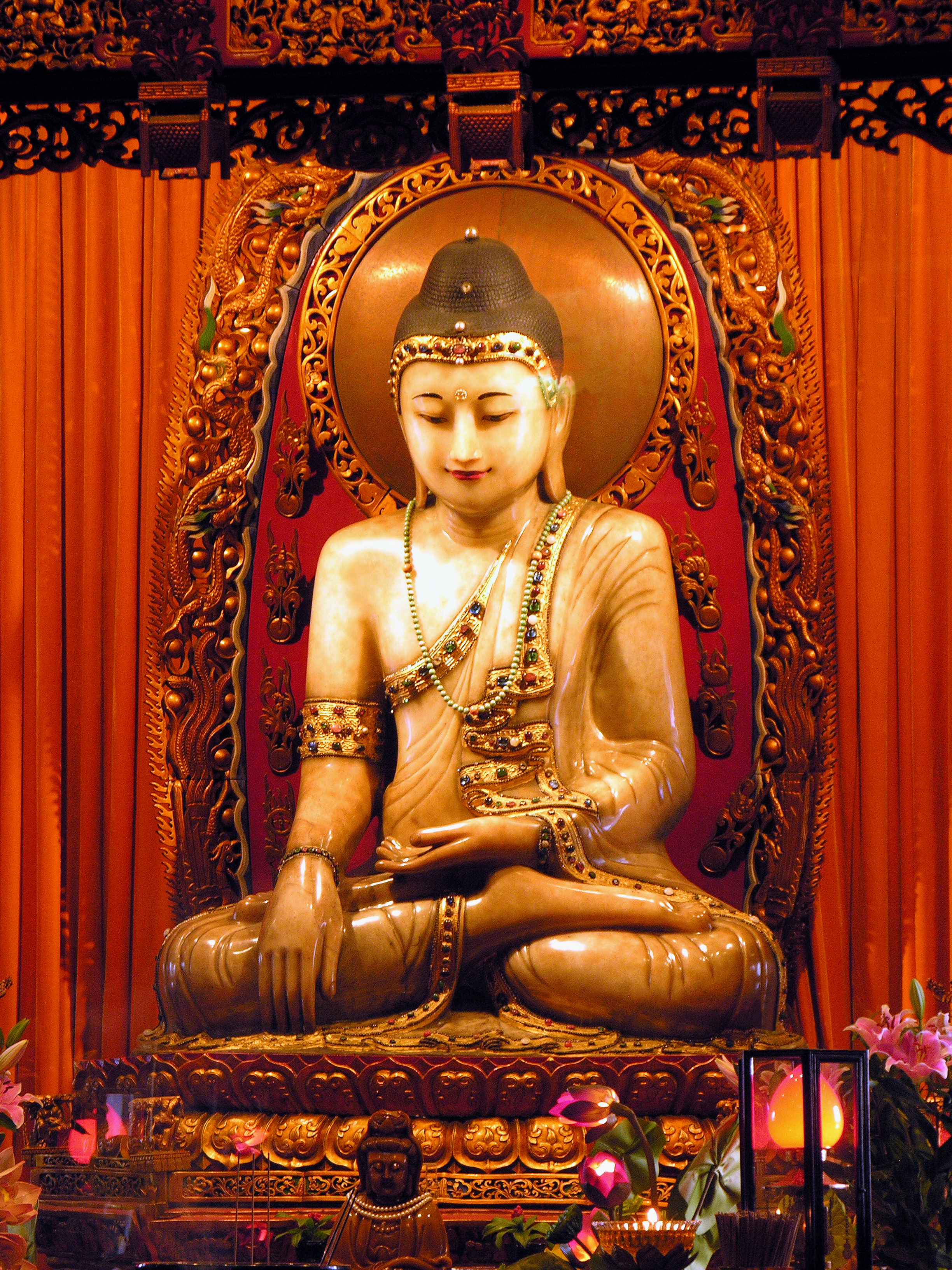 PLEASE, no multi invitations in your comments. DO NOT FEEL YOU HAVE TO COMMENT.Thanks. DO NOT SEND ME E-MAIL REQUESTING ME TO LOOK AT A PICTURE, I RETURN ALL COMMENTS IF YOU COMMENT. Jade Buddha Temple - The Sitting Buddha is 190 cm high and encrusted by the agate and the emerald, portraying the Buddha at the moment of his meditation and enlightenment. Shanghai, China.